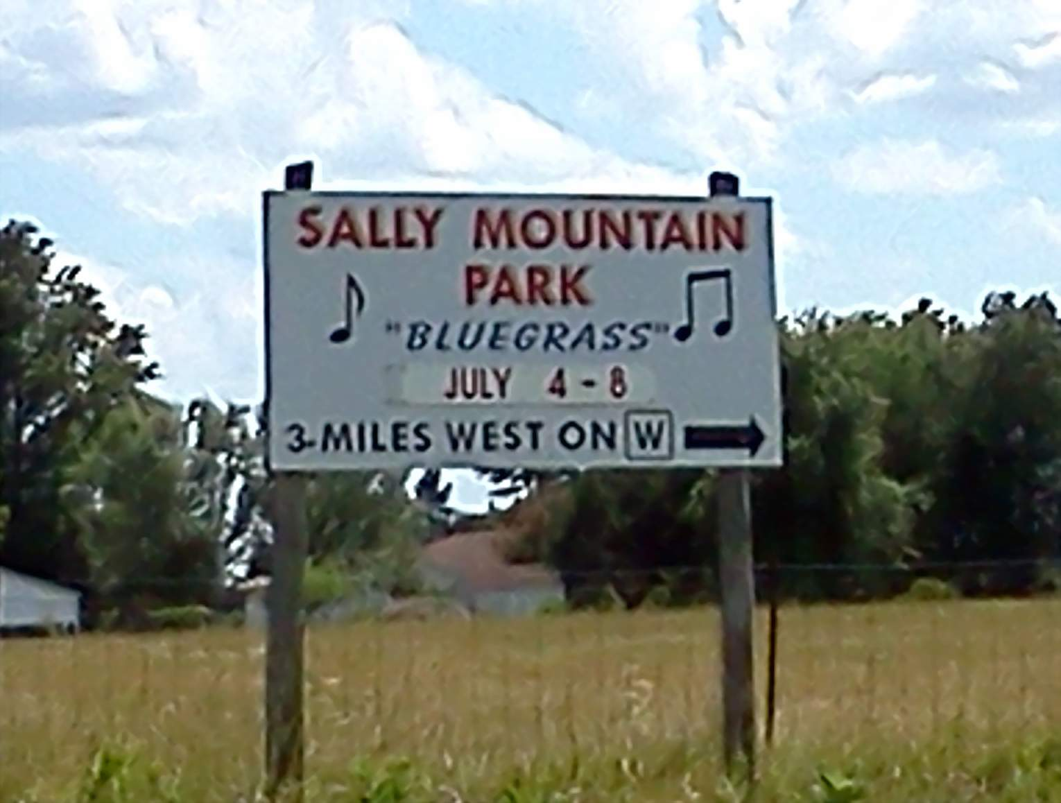 Direction sign to Sally Mountain Park, west of Queen City, Missouri USA